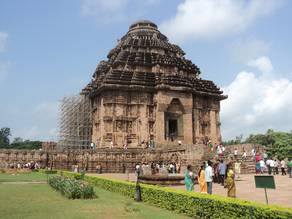 Konark Sun Temple is a 13th century Sun Temple (also known as the Black Pagoda), at Konark, in Orissa. It was constructed from oxidized and weathered ferruginous sandstone by King Narasimhadeva I (1238-1250 CE) of the Eastern Ganga Dynasty. The temple is an example of Orissan architecture of Ganga dynasty . The temple is one of the most renowned temples in India and is a World Heritage Site.